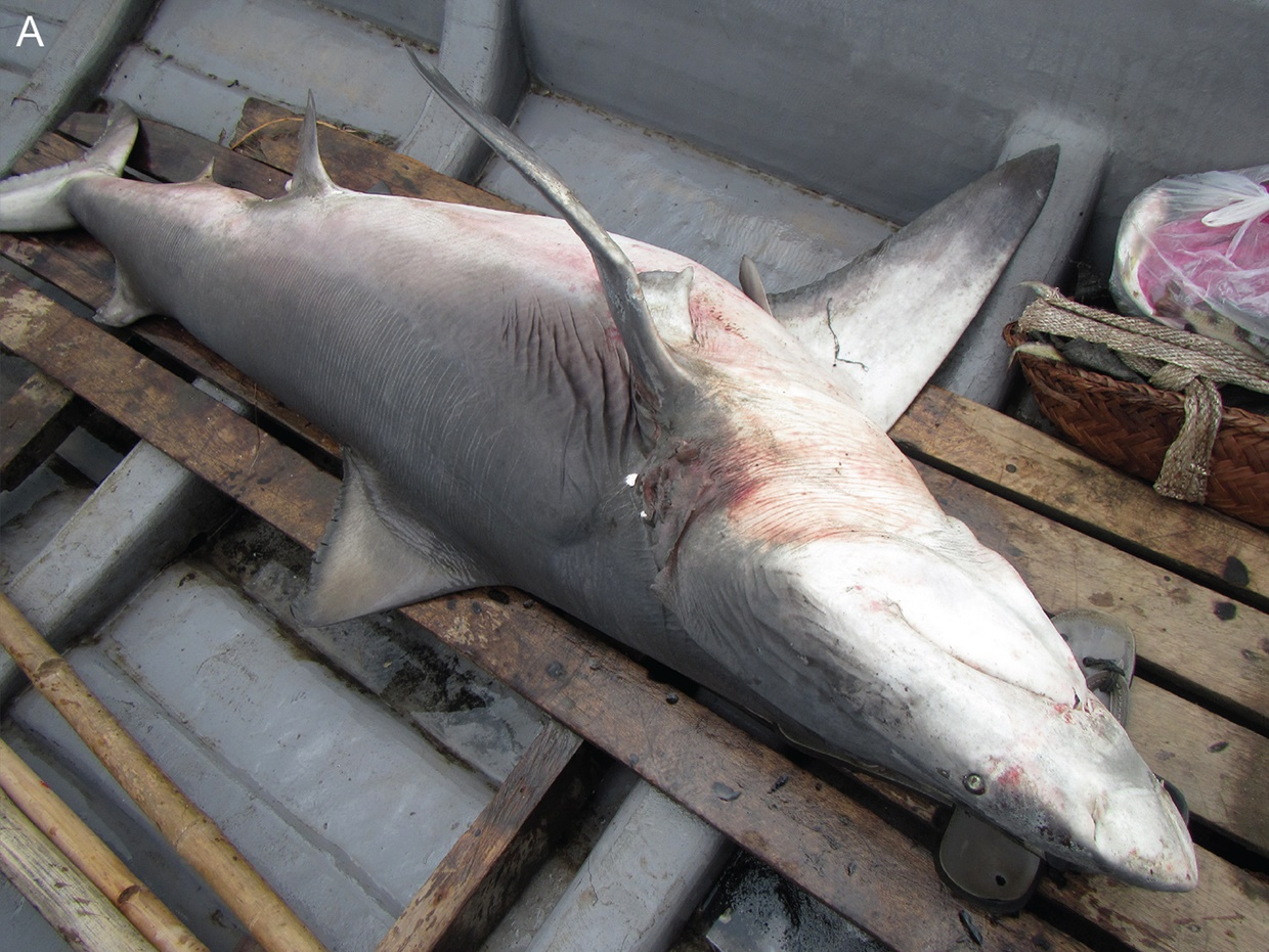 Male speartooth shark (Glyphis glyphis) from the coastal marine waters of the Daru region, Western Province, Papua New Guinea.